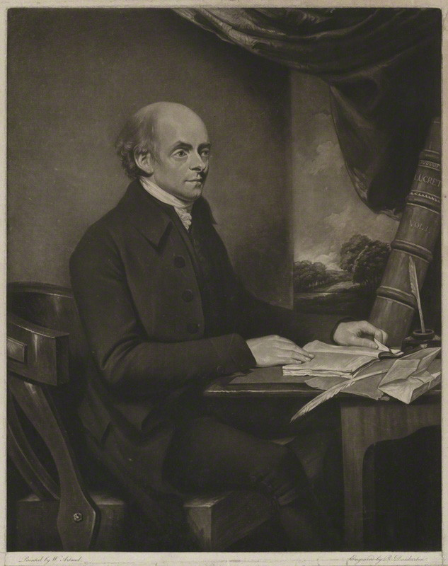 Gilbert Wakefield by Robert Dunkarton, after William Artaud